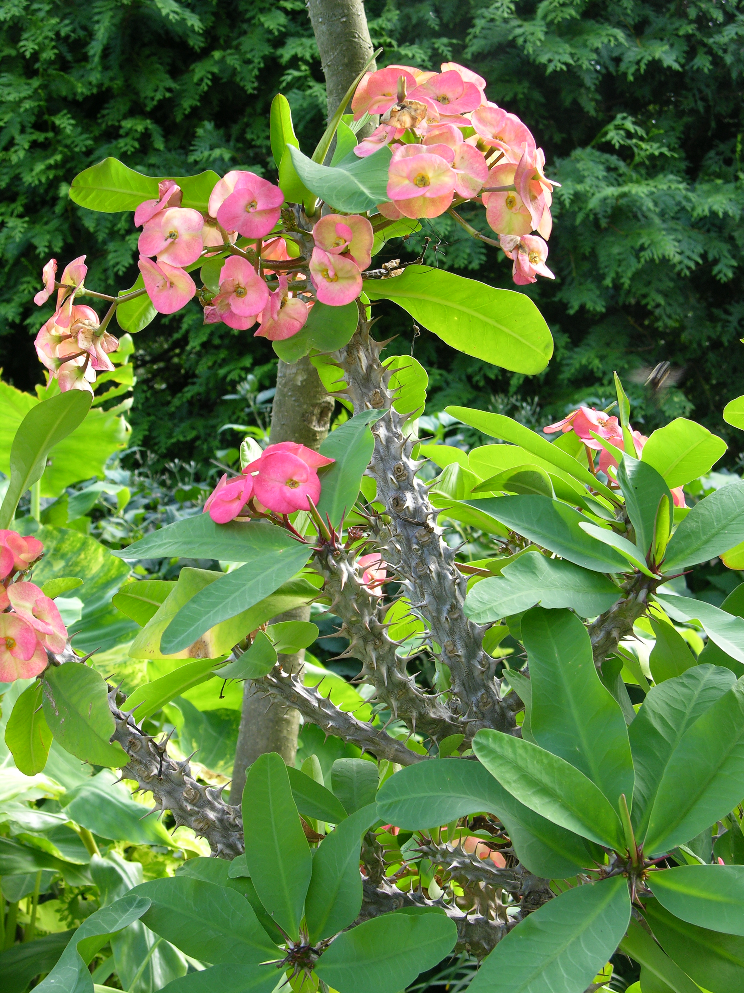 A picture an unidentified cultivar of the Crown of Thorns (Euphorbia x lomi) plant. Photo taken at the Chanticleer Garden where it was identified.